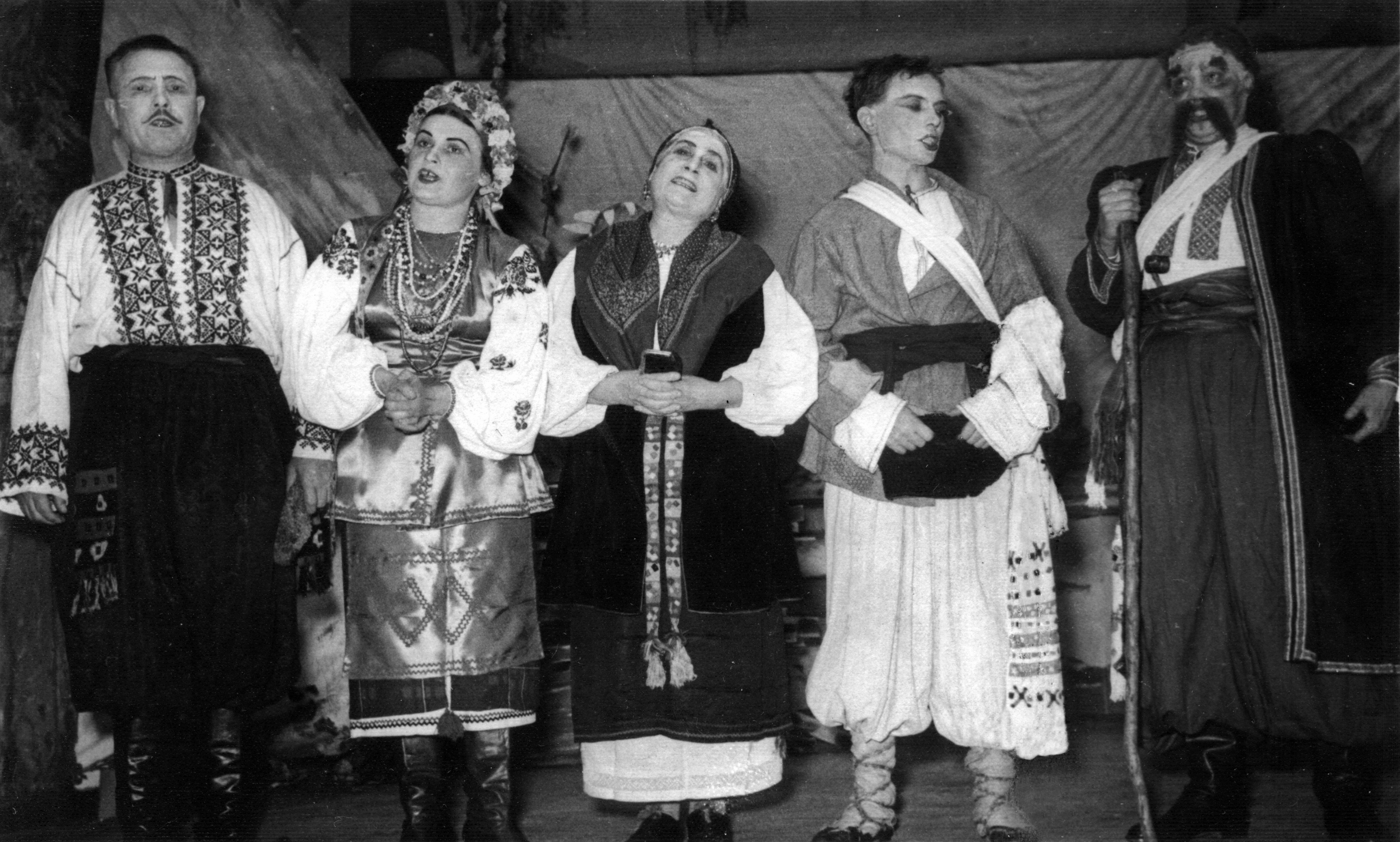 (From left to right) Ілько Мартинюк (Ilko Martinyuk), Марія Дубровська (Maria Dubrowska), Марія Мартинюк? (Maria Martinyuk) , Степан Хвиля (Stepan Chwyla) and probably Т. Робітницький (T. Robitnytsky) in the play "Наталка Полтавка" ("Natalka from Poltaval") staged by the "Вокально-Музичний Ансамбль в Сіднеї" ("Vocal-Musical Ensemble of Sydney"). Held at the Railway Instute in Sydney; 1951